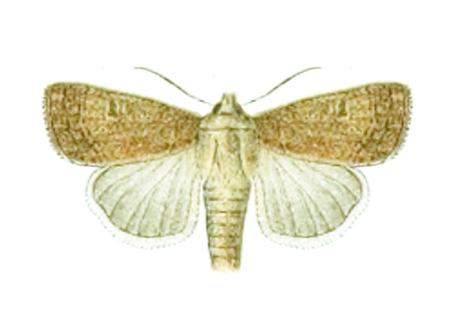 Rhyacia xanthographa Schiff. ab. palaestinensis Kalchb. ♀ = Xestia palaestinensis (Kalchberg, 1897), female